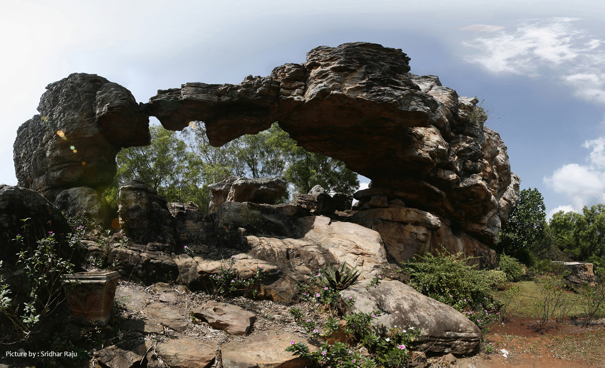 One of the most ancient Rock Arches in the world, that exists in tirumala, near Tirupati in Andhra Pradesh, India